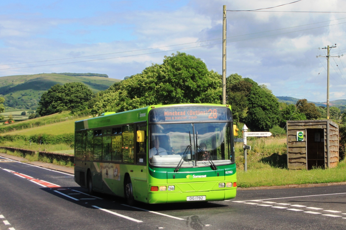 Speeding past the Sampford Brett bus stop on route 28 from Taunton to Minehead is The Buses of Somerset's 62192, a Wright Renown registered OIG1792 (originally X686ADK).